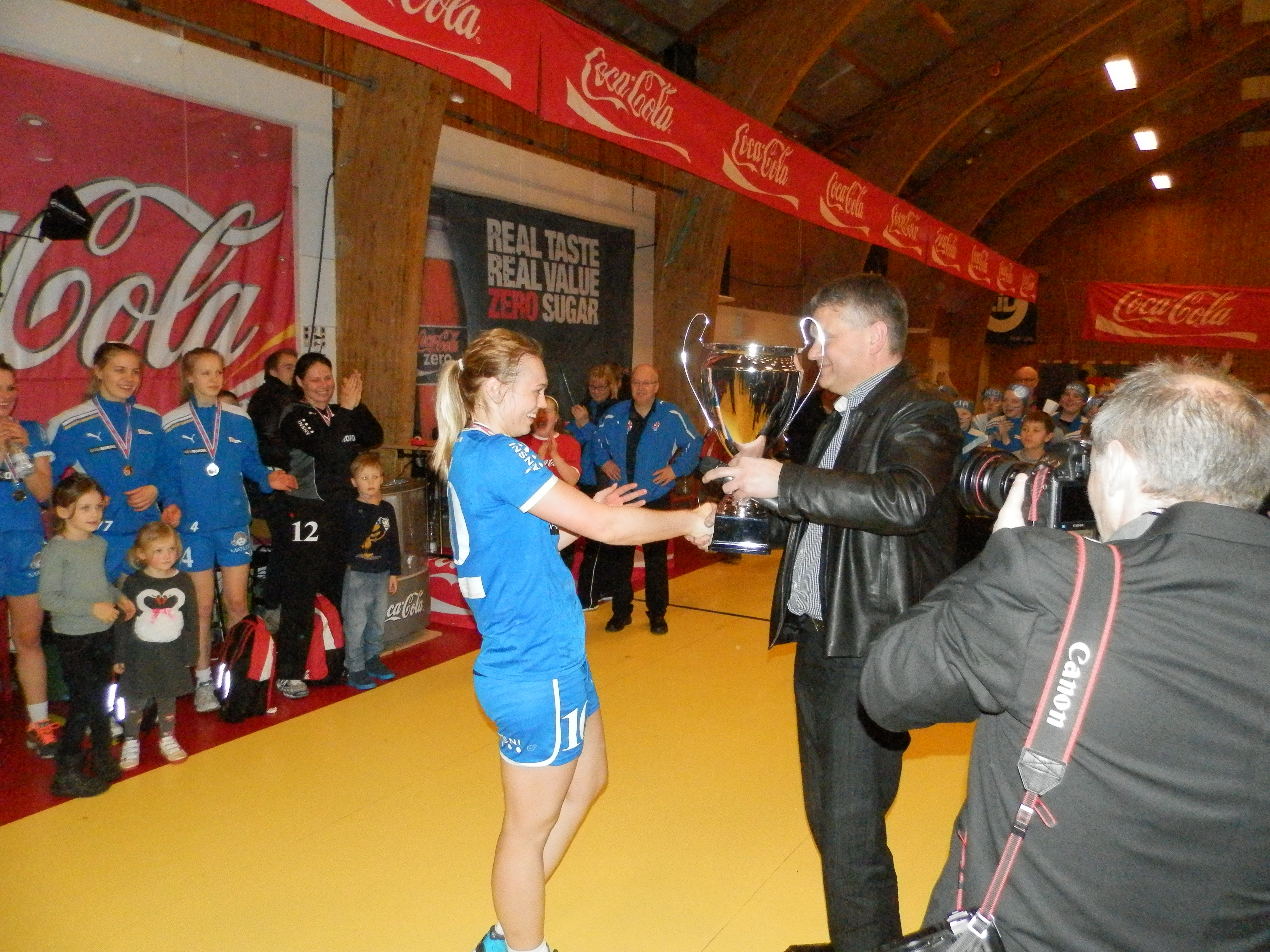 The women's handball final in the Faroe Islands Cup 2013 was played on 9 February 2013 in the sports hall on Nabb in Tórshavn, Faroe Islands. The final was between VB from Vágur and Neistin from Tórshavn. Neistin won the final 27-24. Føroyskt: Steypafinalan 2013 hjá kvinnum í hondbólti millum VB og Neistan varð leikt í Høllini á Nabb (á Hálsi) í Havn hin 9. februar 2013. Neistin vann finaluna 27-24. Her fær Neistin handað steypið.